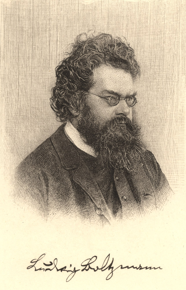 Ludwig Boltzmann (1844 - 1906), austrian scientist